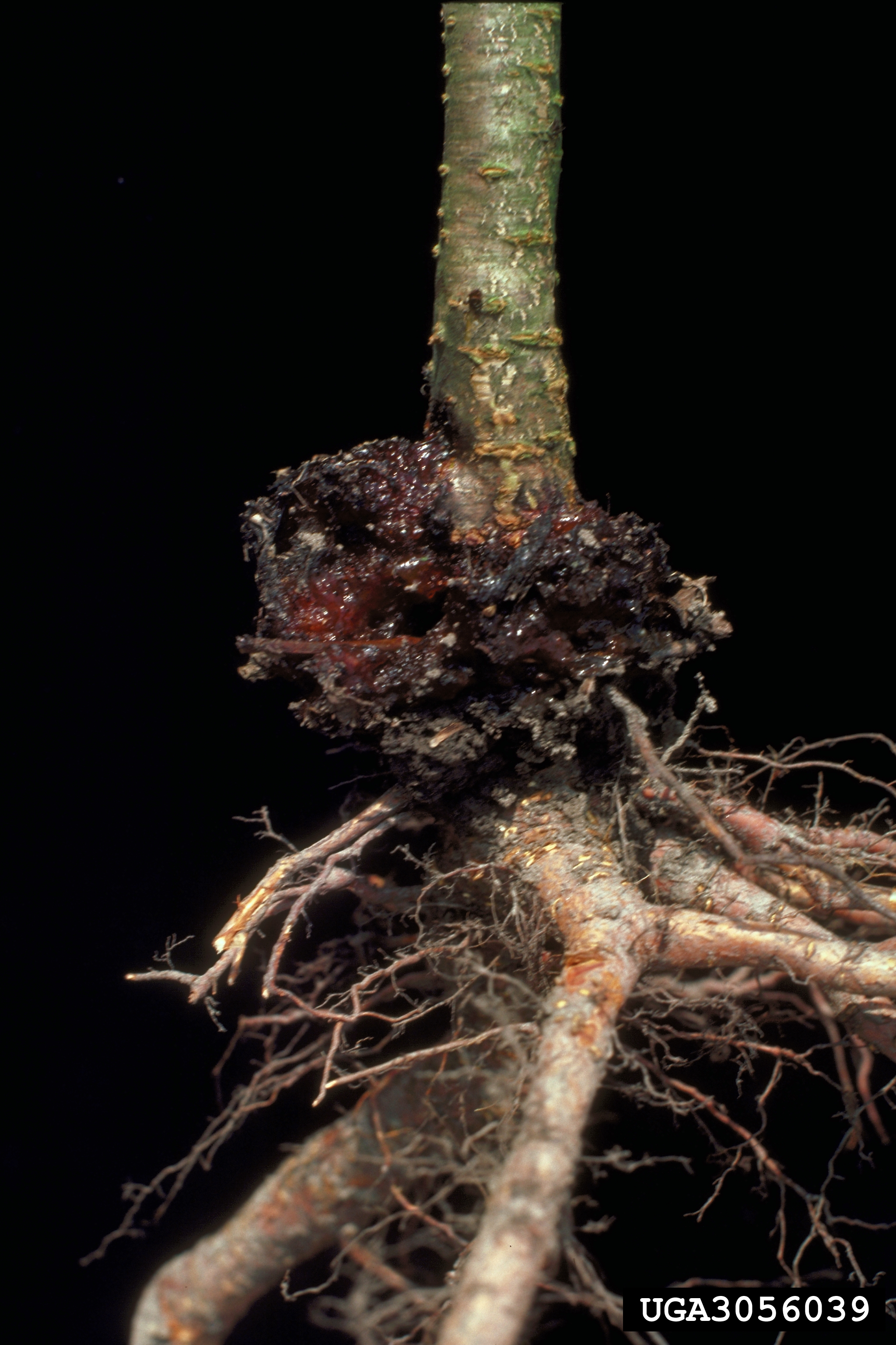 Synanthedon exitiosa